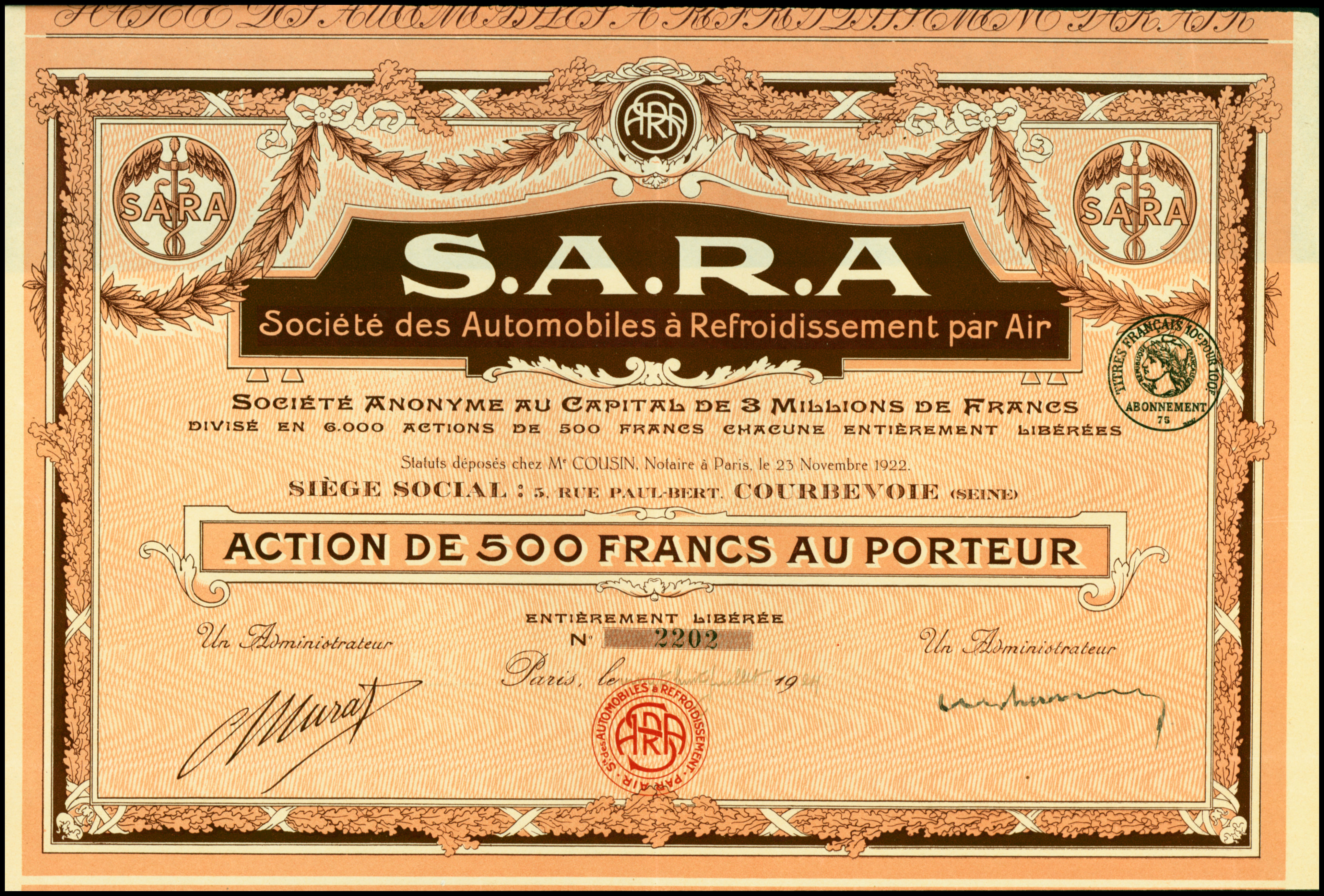 Share of the Société des applications du refroidissement par air (S.A.R.A.), issued 28. July 1924